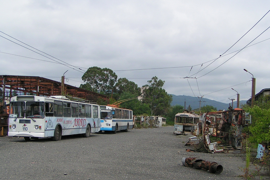 Trolleybus depot in Sukhumi, Abkhasia. 2006